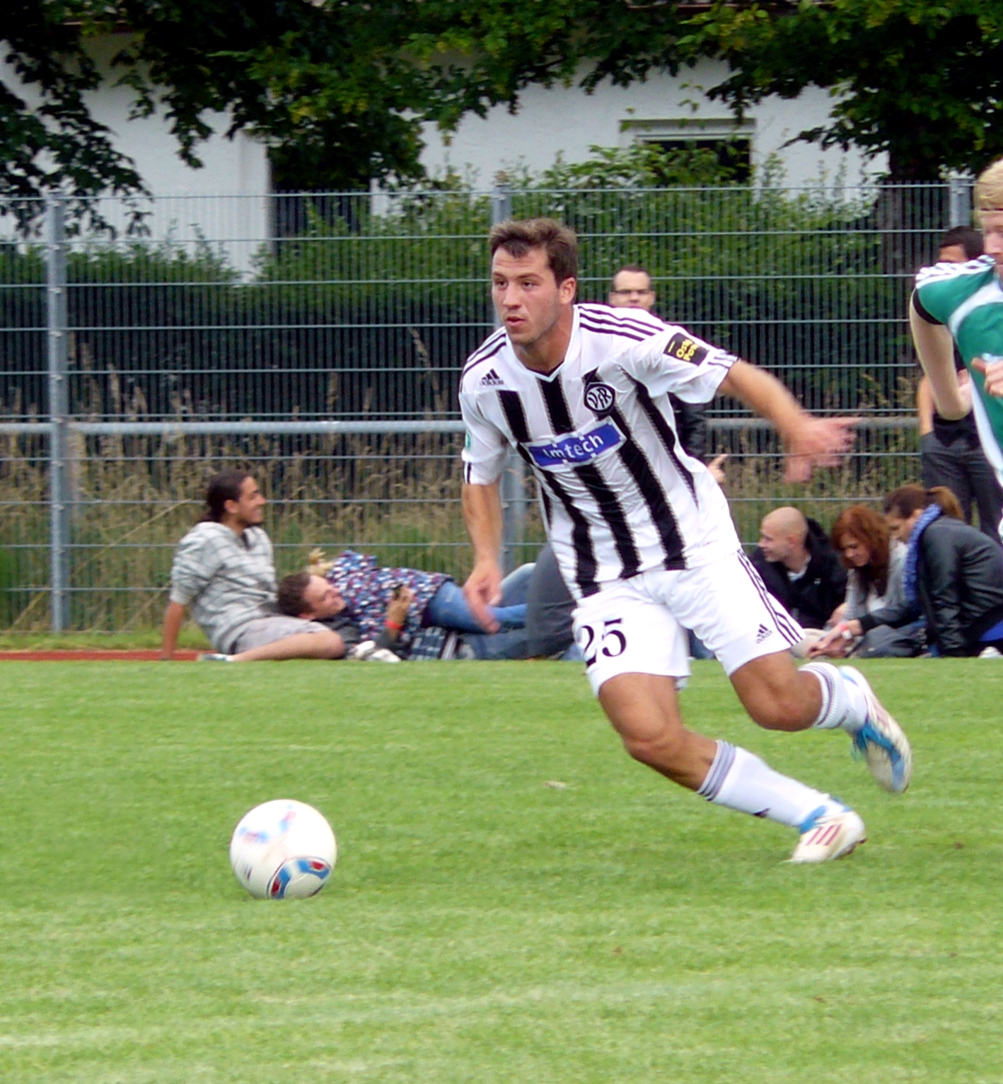 Kevin Ruiz (VfR Aalen), German-Spanish footballer